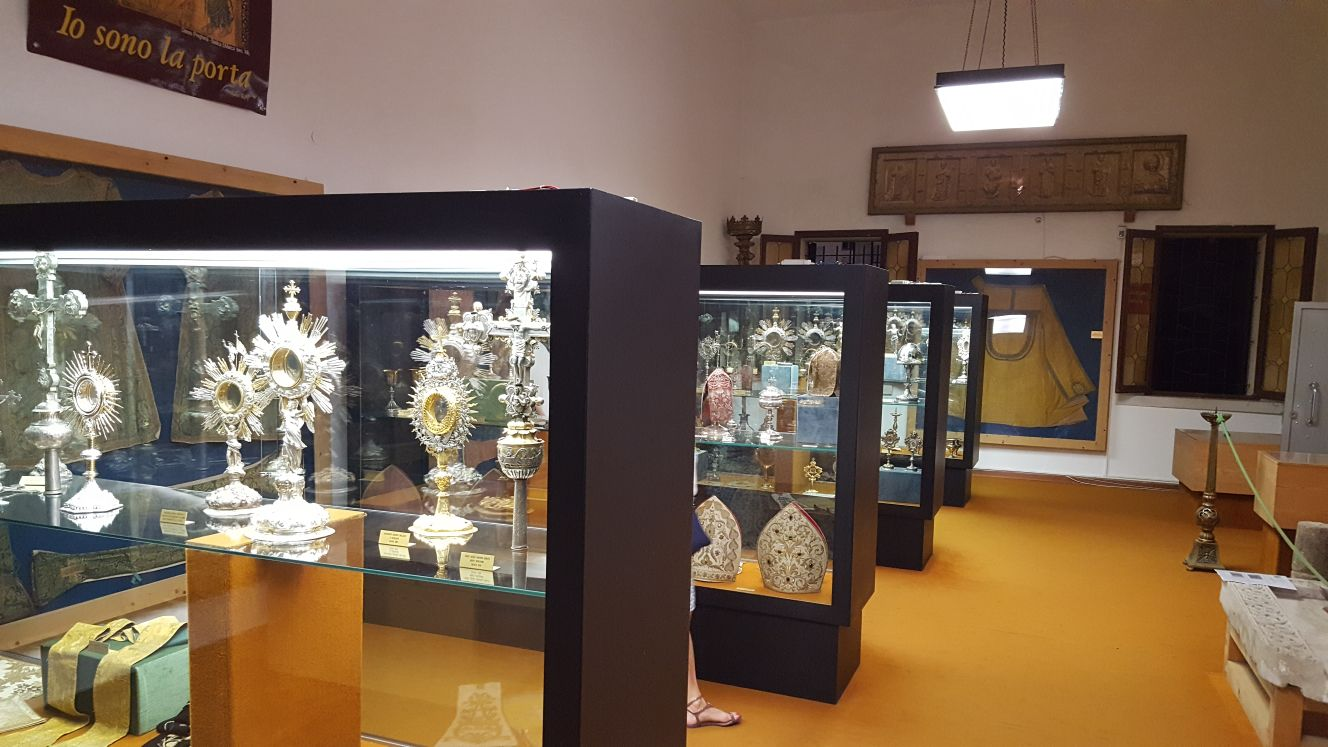 Liturgical museum of Caorle